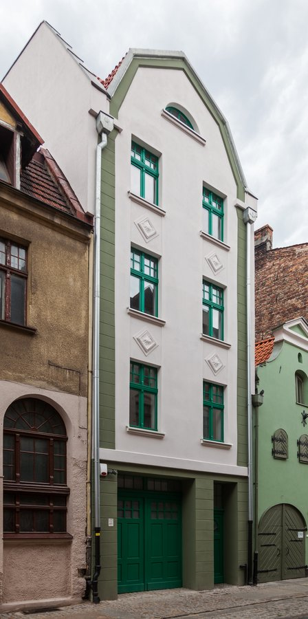 House at 9 Franciszańska Str. in Toruń.